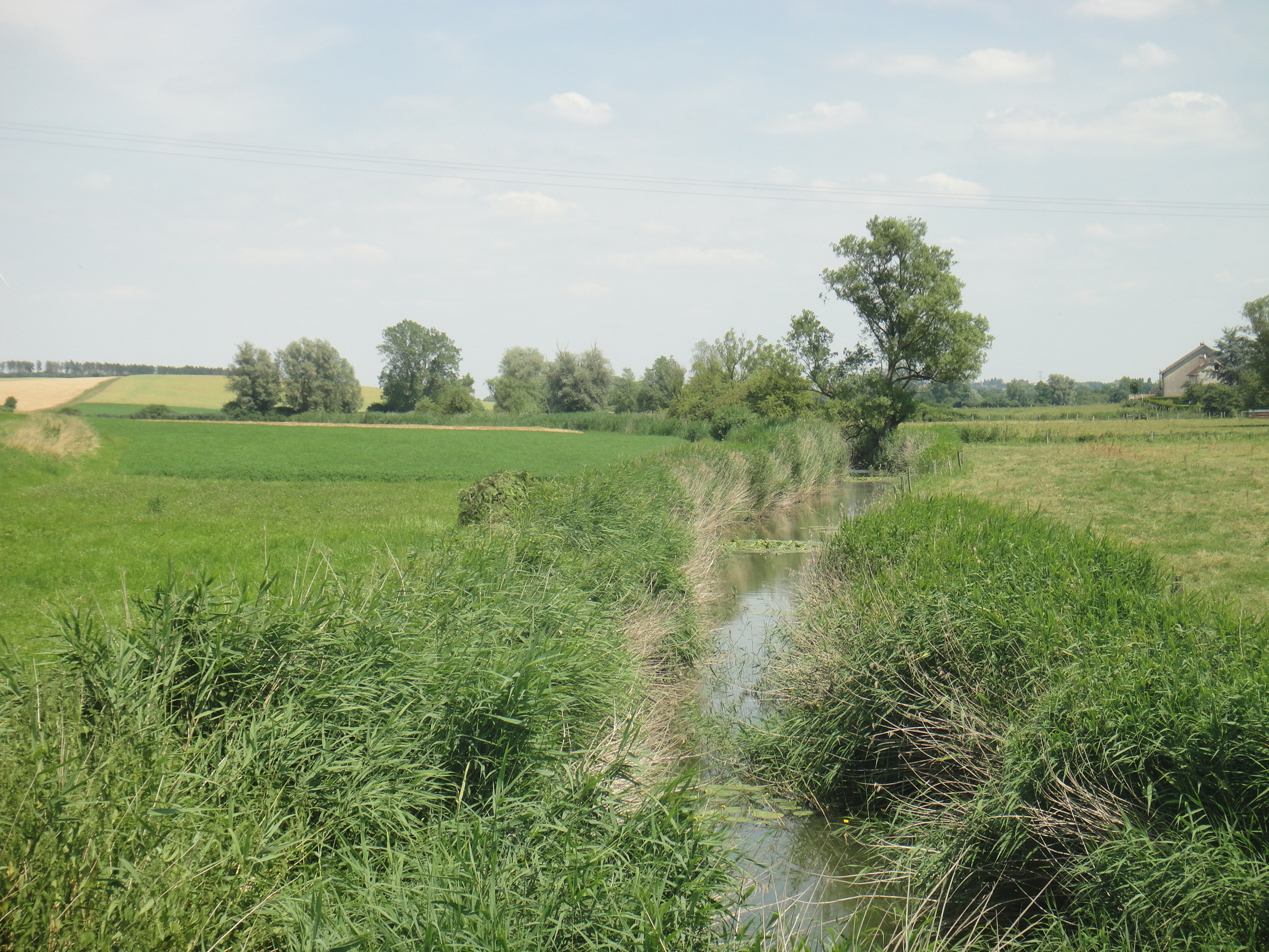 valley of the river Albe in Léning, Lorraine (France)